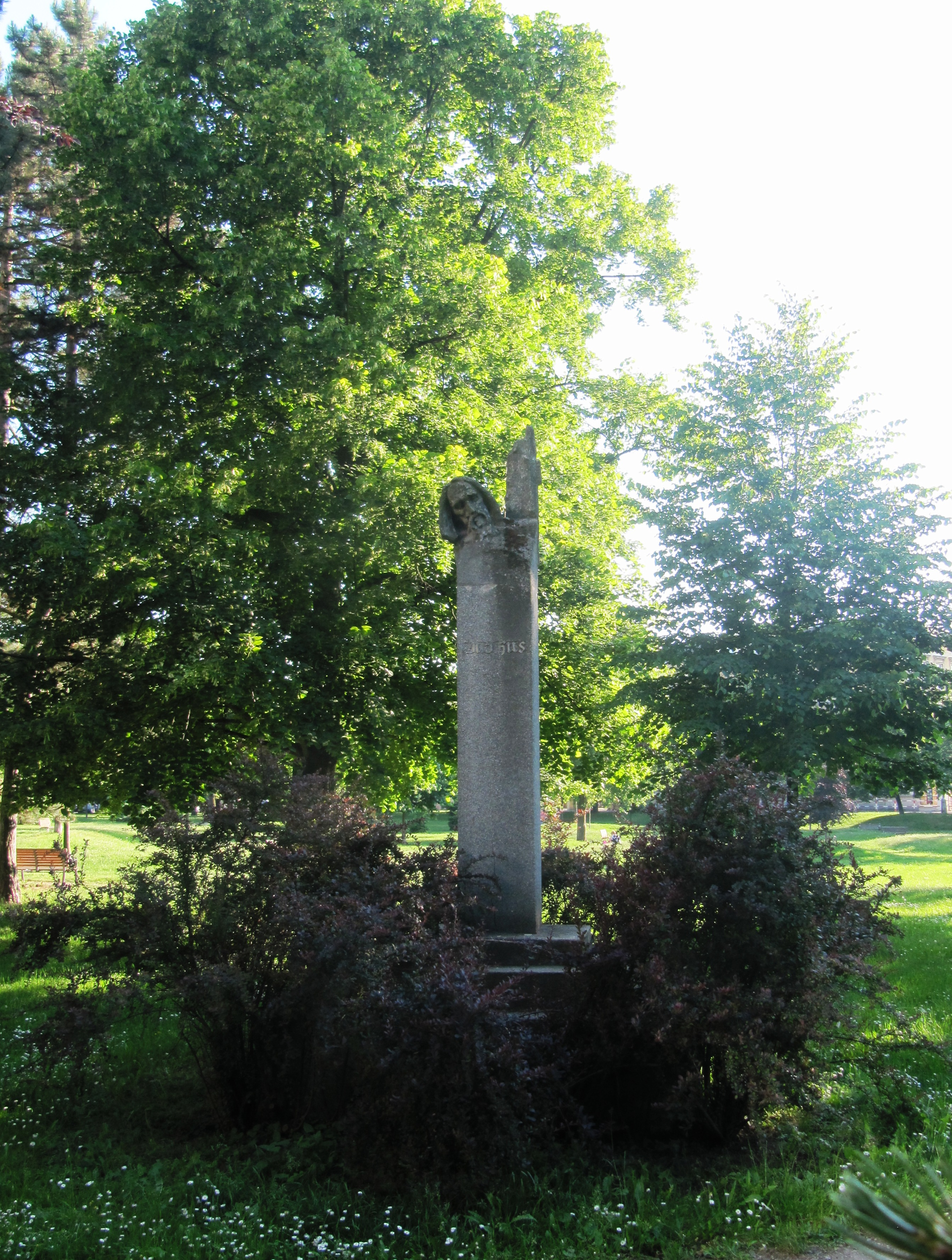 Hradec Králové, Czech Republic.